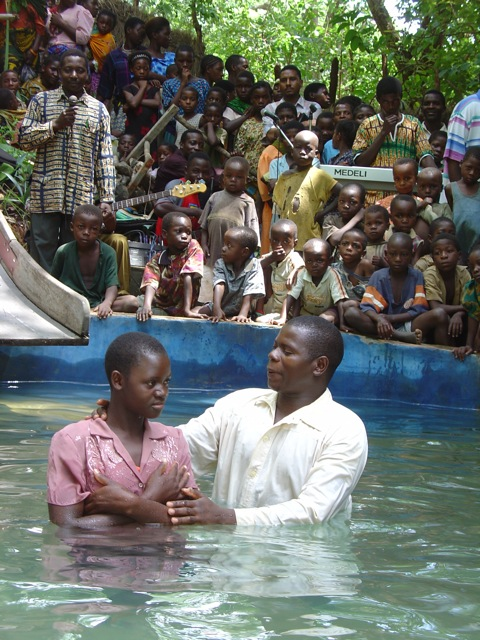 Baptism in Southern Tanzania.